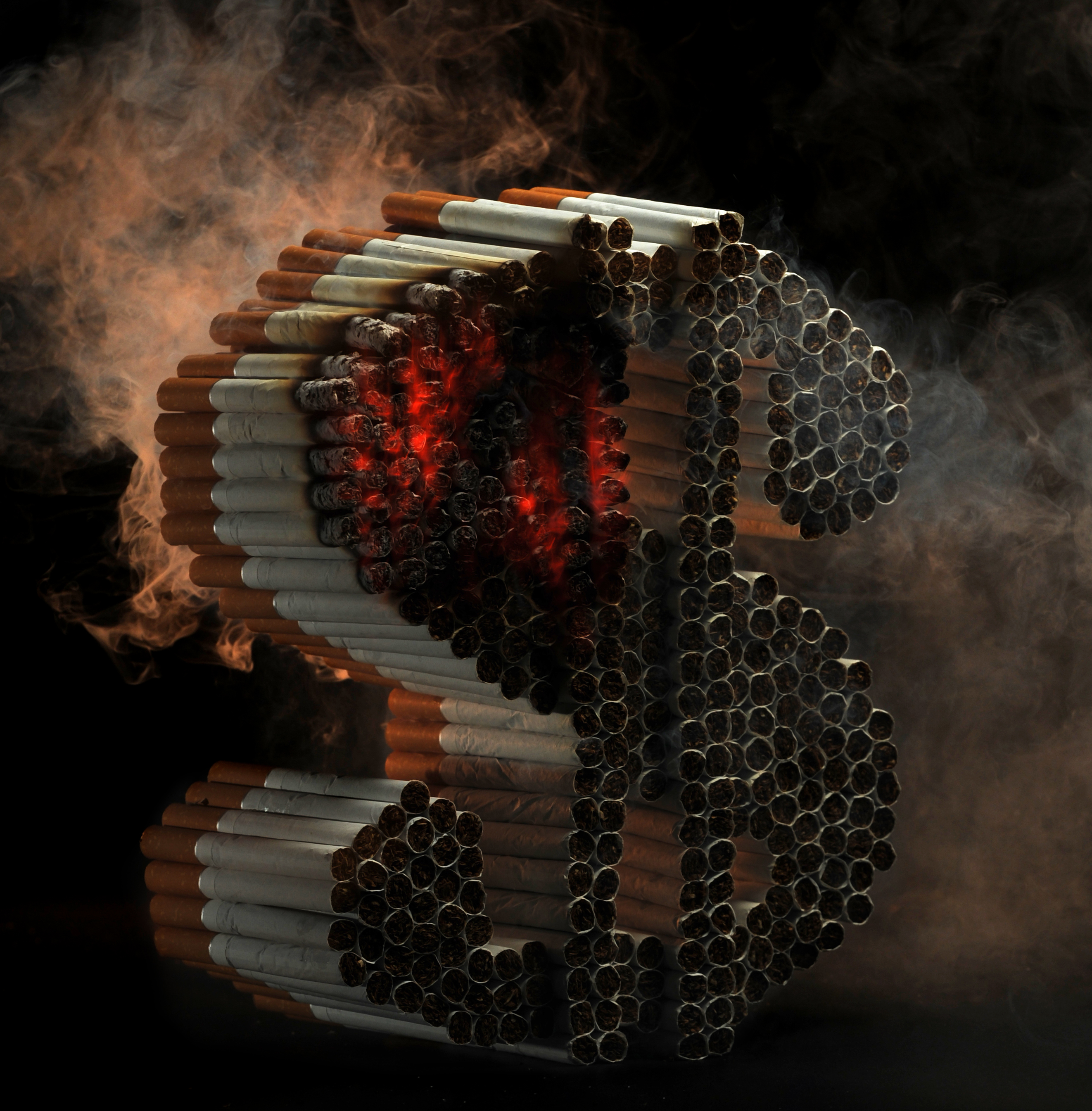 Up in $moke. According to a Department of Defense survey of health related behaviors among active duty military personnel, it is estimated that the DOD spends about $875 million per year on healthcare for smoking-related illnesses and lost productivity in DOD beneficiaries. All smokers are encouraged to quit smoking for 24 hours by participating in the Great American Smoke Out on November 19, 2009. (U.S. Air Force photo by Senior Airman Nathan Lipscomb)